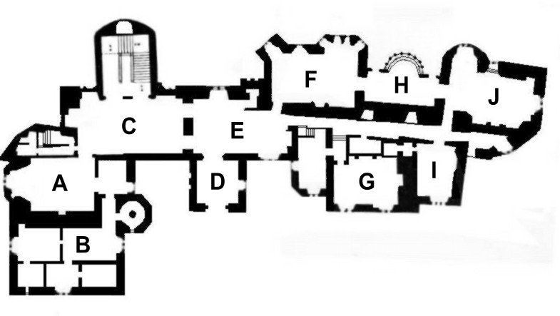 Plan of Dunster Castle, pre-1860s